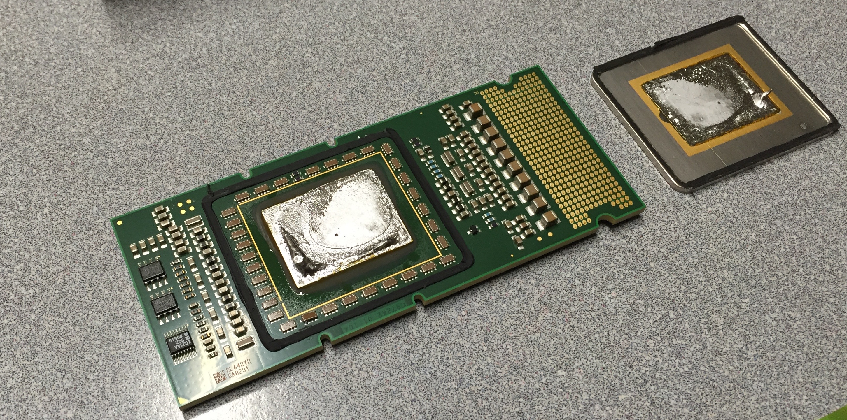 Intel Itanium 2 9000 with cap removed